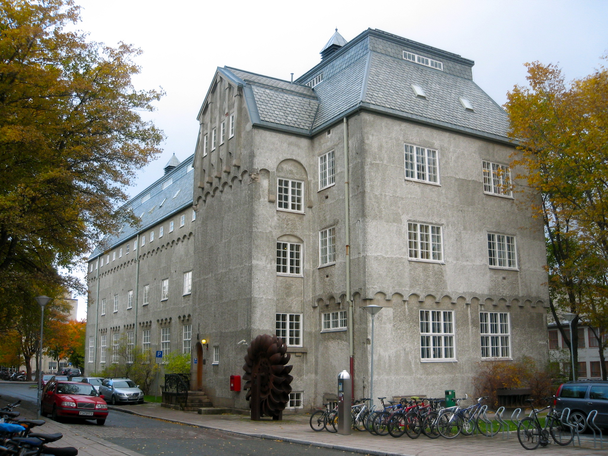 The Hydropower Laboratory at Campus NTNU Gløshaugen, Trondheim. Built 1917. Architect: Bredo Greve